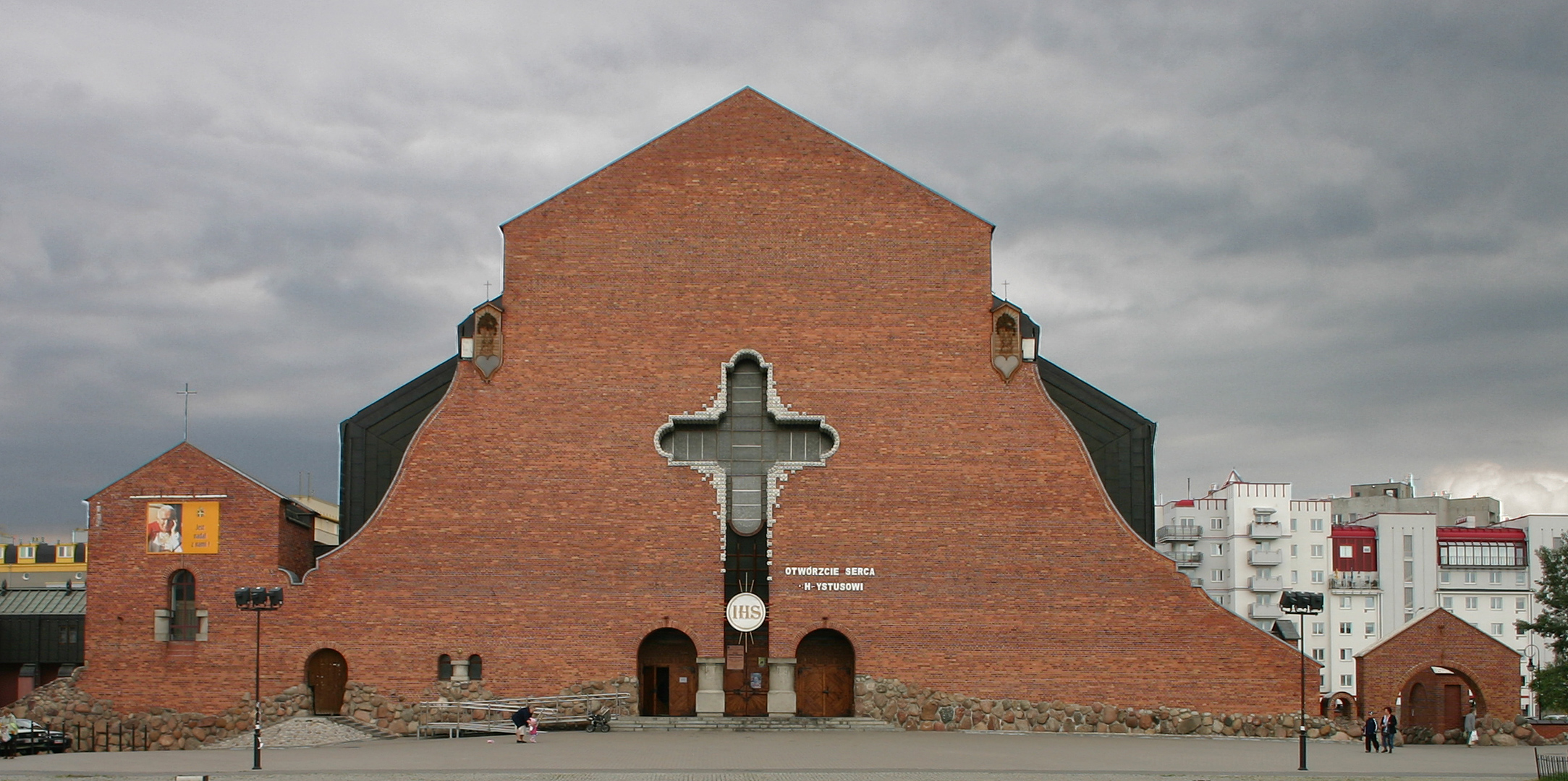 Kościół Wniebowstąpienia Pańskiego - church, Warsaw (Ursynów District), Poland